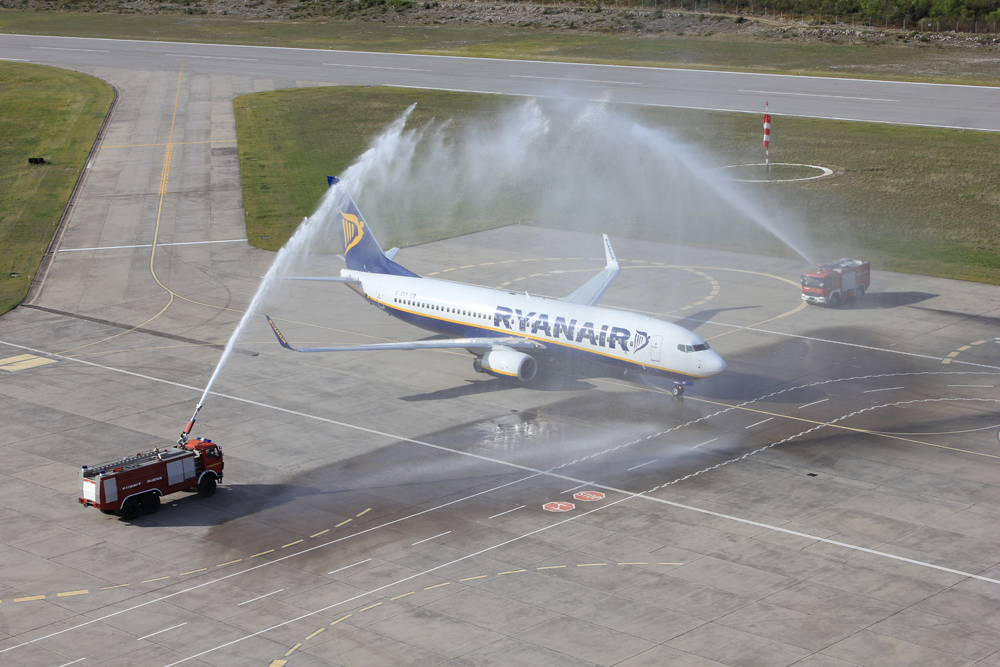 Water cannon salute provided to the first Ryanair's aircraft that has landed at Rijeka airport.